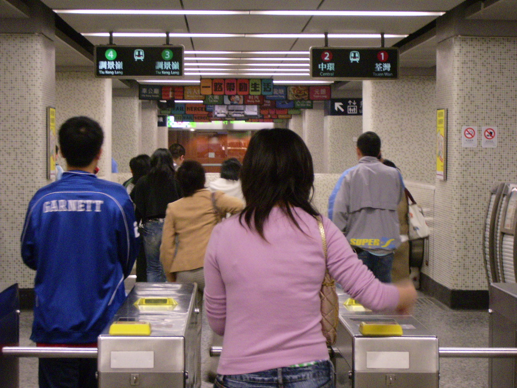 Yau Ma Tei Station Road to Platform